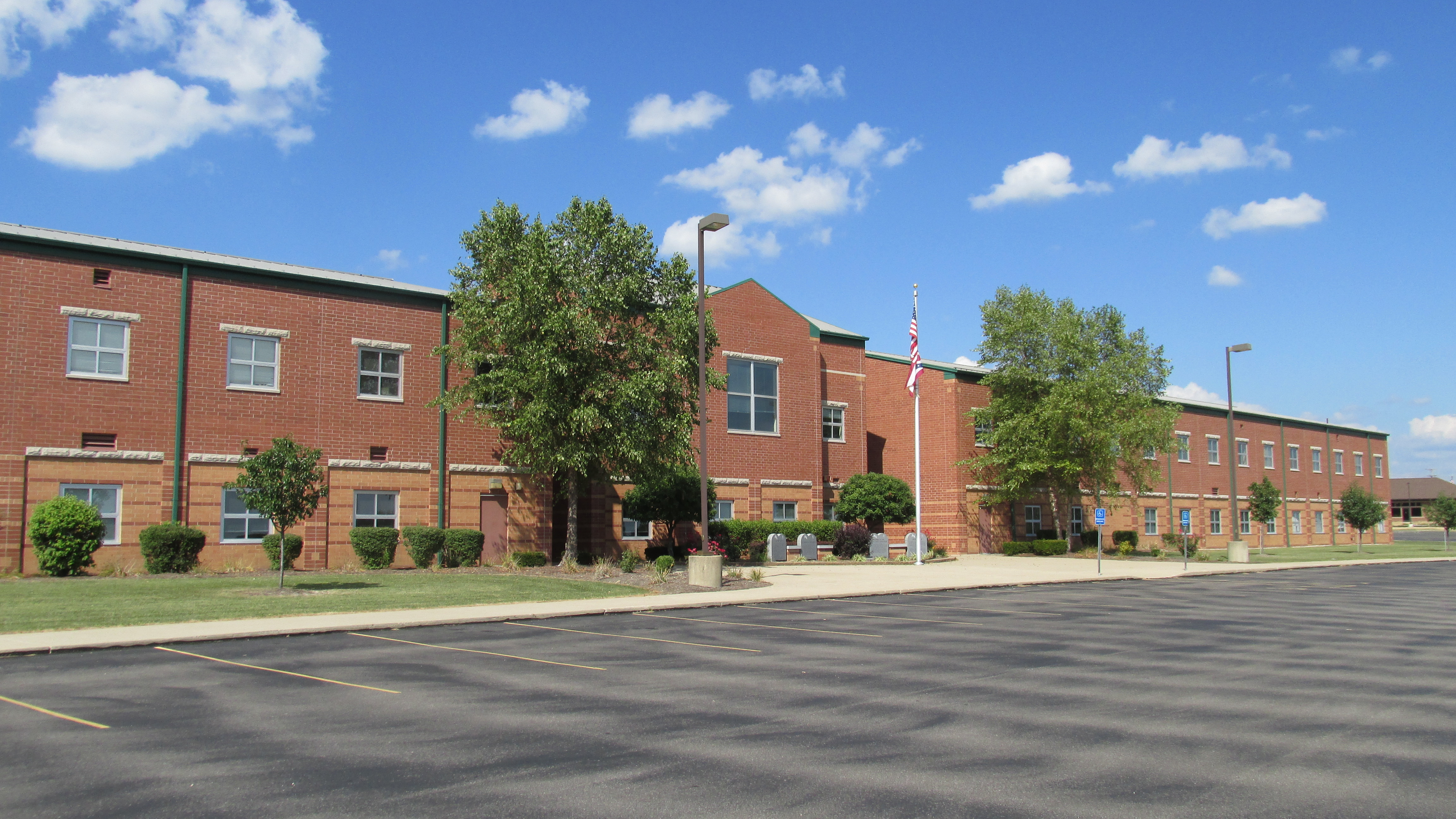 North Adams High School located in Seaman, Ohio.